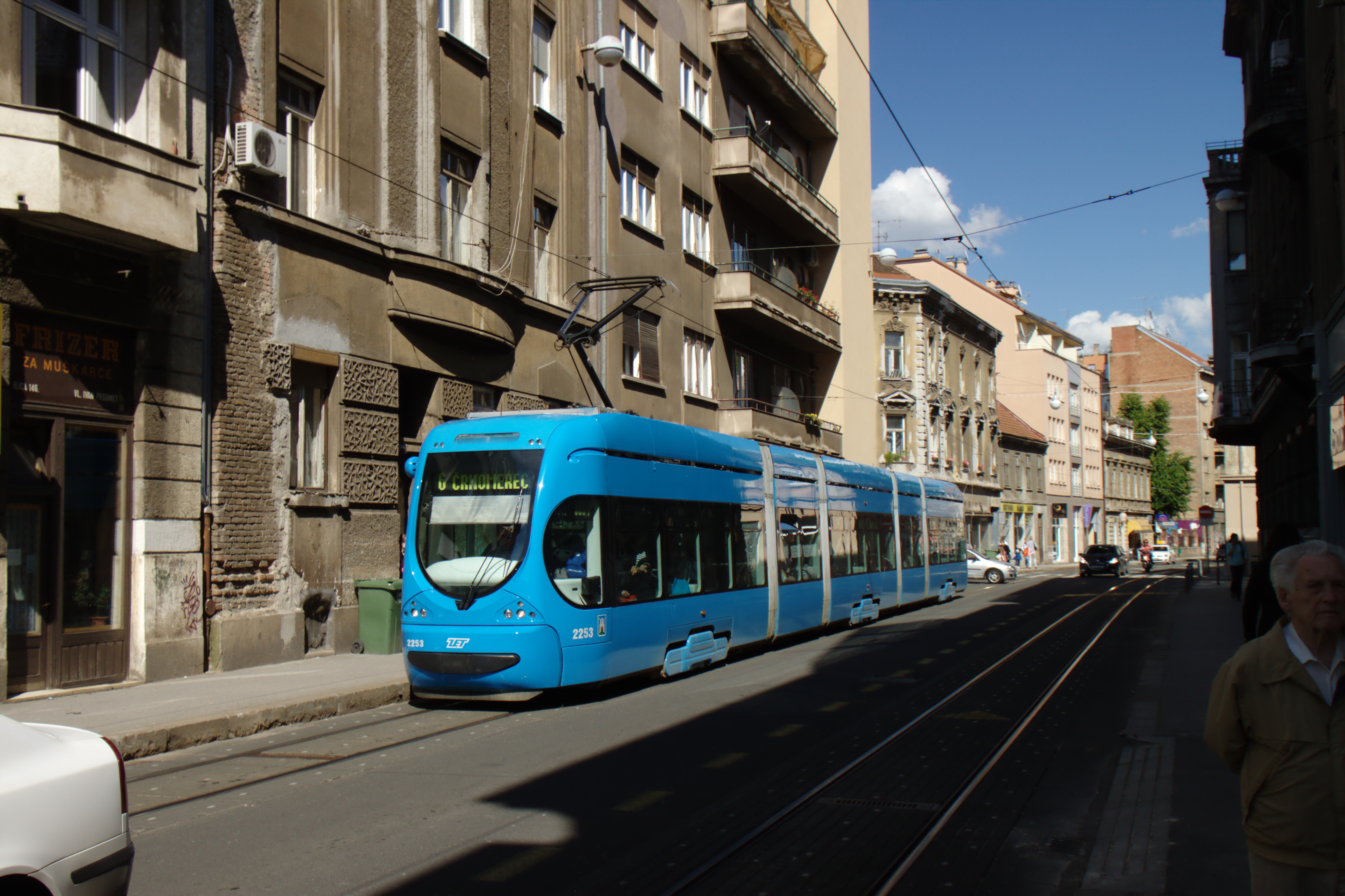 Ilica Street in Zagreb, Croatia